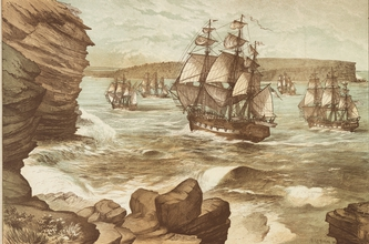 Colour lithograph of the First Fleet entering Port Jackson on January 26 1788, drawn in 1888. Creator: E. Le Bihan